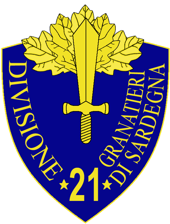 21a Divisione Fanteria Granatieri di Sardegna insignia, Regio Esercito, Italy, WWII